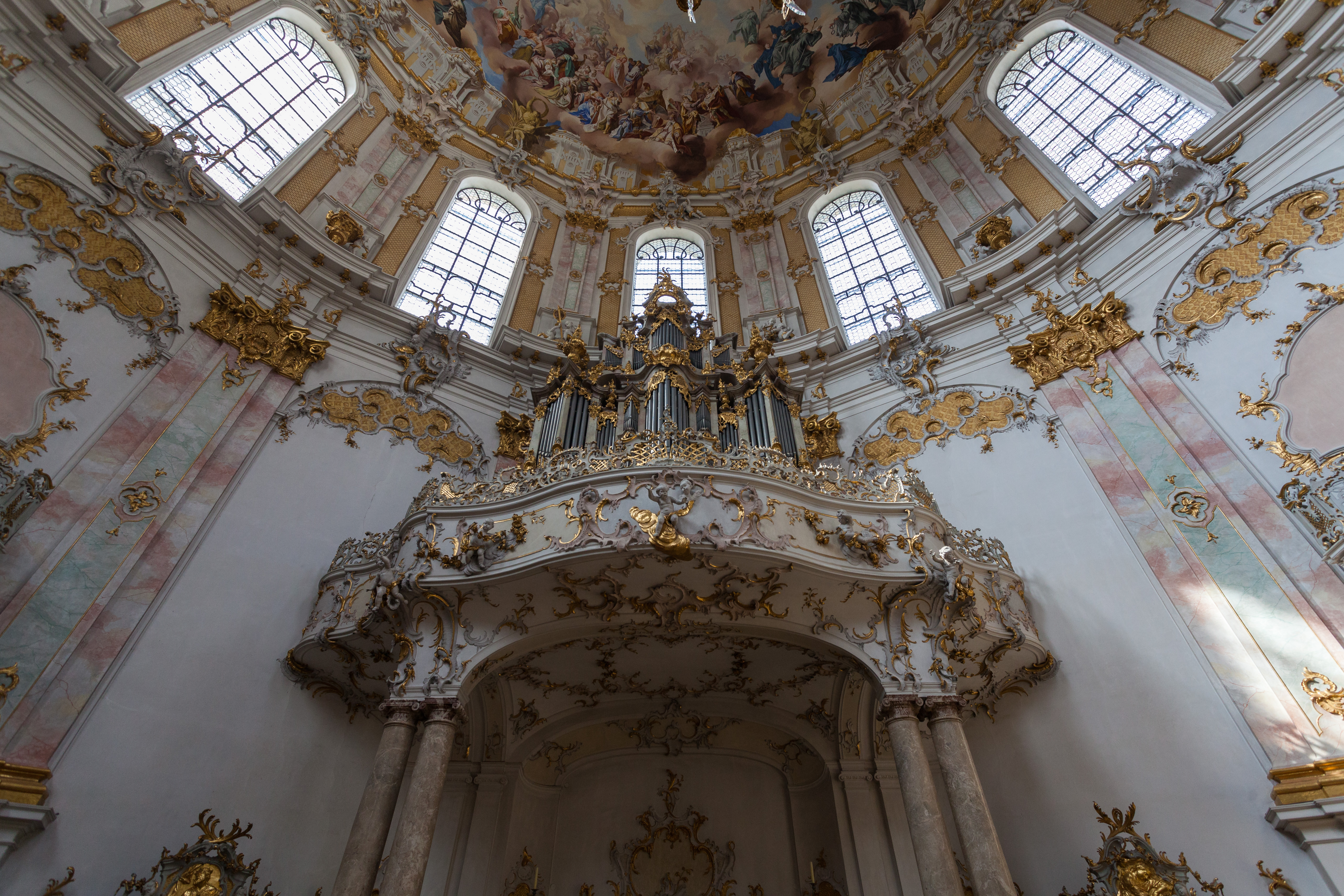 Ettal Abbey, Bavaria, Germany